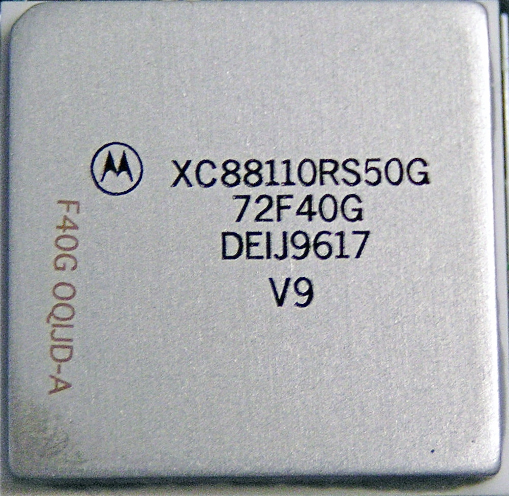 Motorola XC88110RS50G CPU (overhead view) from MVME197LE VME processor card